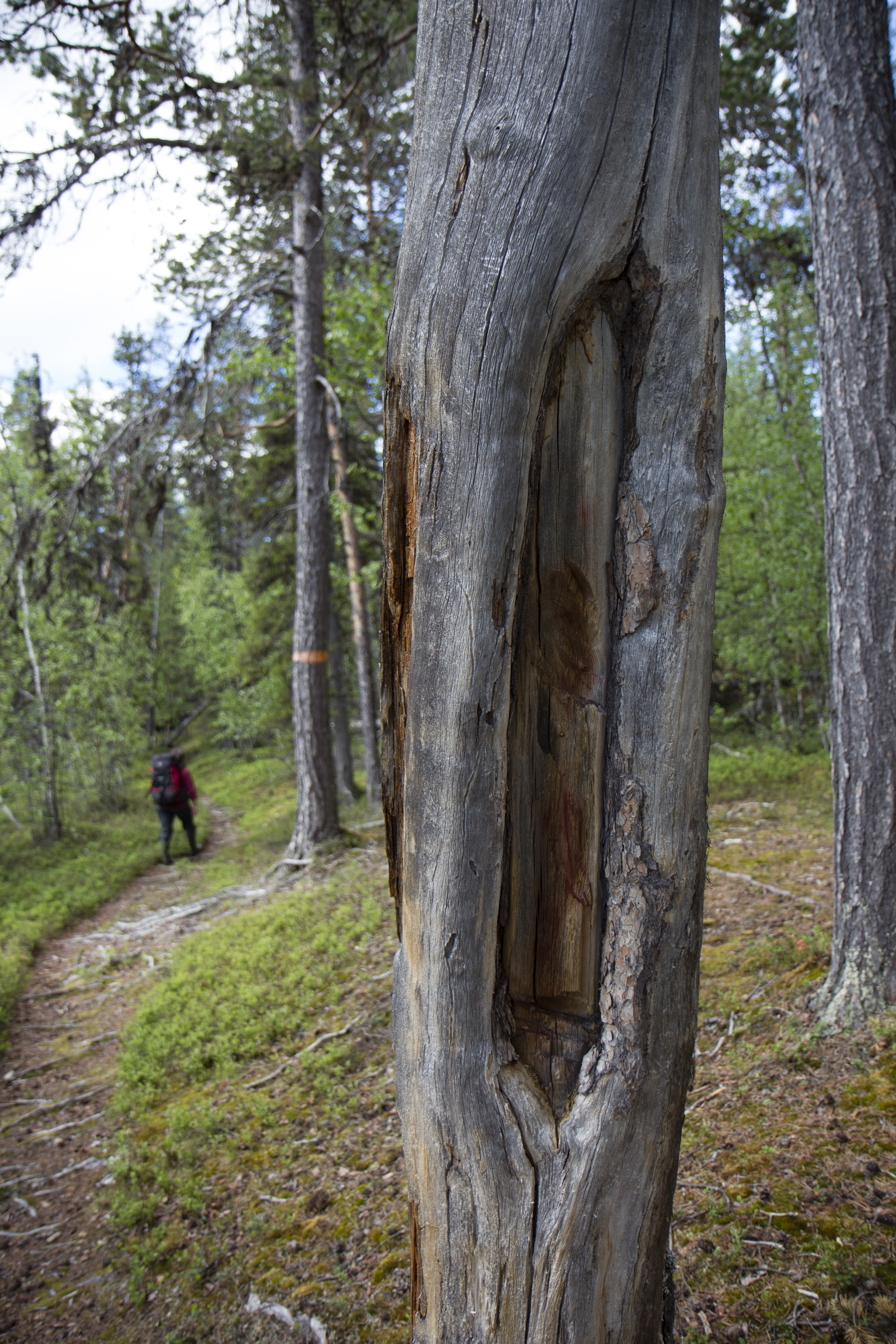 Bark stripping from Sami people to use as food in Muddus national park